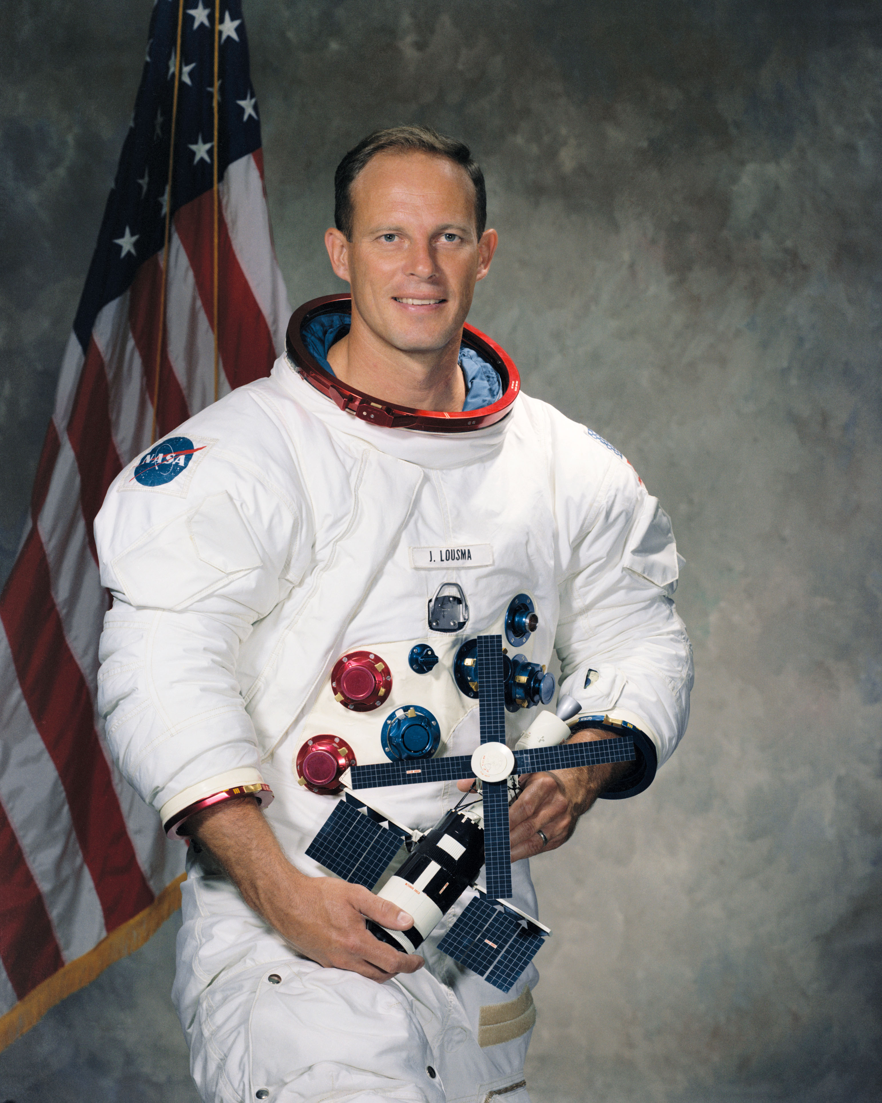 Portrait of Astronaut Jack R. Lousma, in space suit, holding a model of the Skylab.